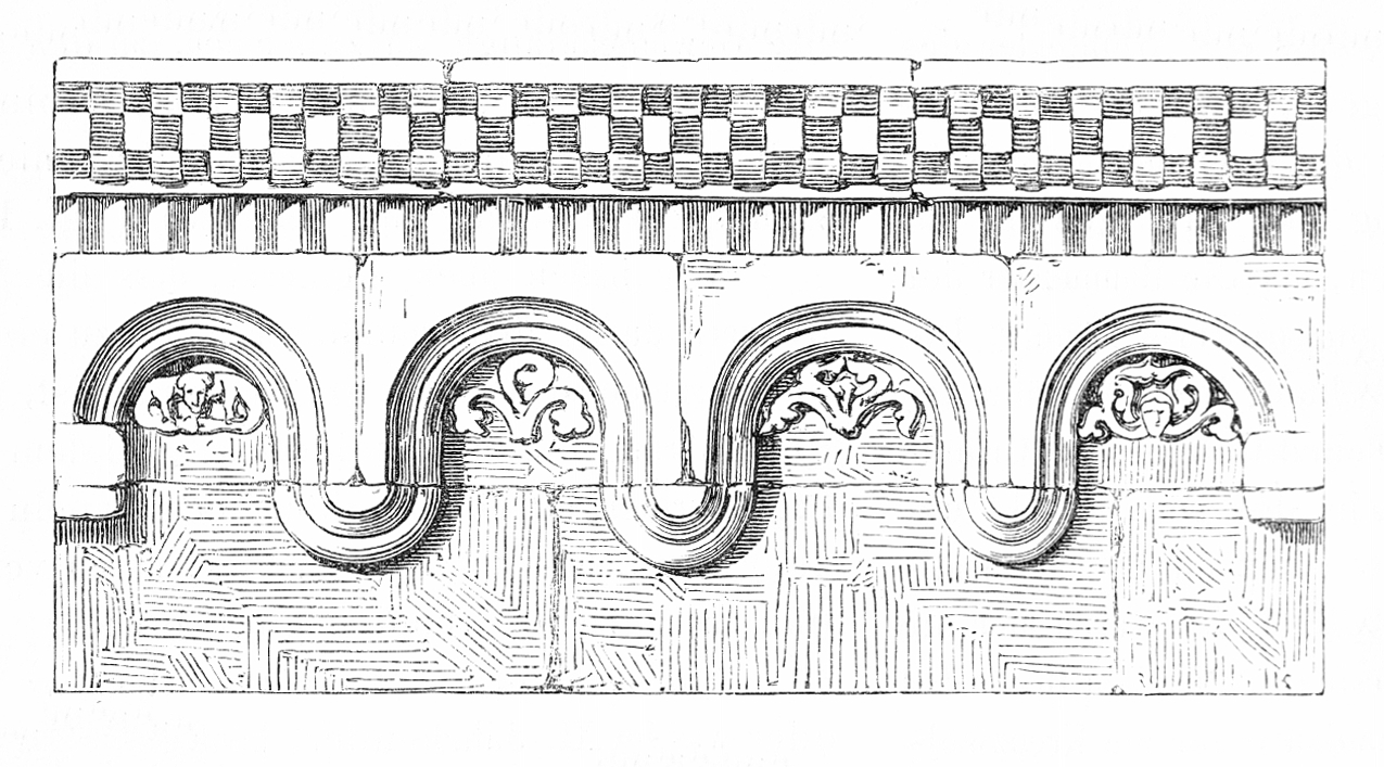 Bild aus den Mittheilungen der kaiserl. königl. Central-Commission zur Erforschung und Erhaltung der Baudenkmale Band 3, 1858. Die inhaltliche Zuordnung entsprechend des in derselben Kategorie befindlichen Artkikels (PDF-Dokument) Scanprojekt Bundesdenkmalamt Österreich This scan or this PDF-file was created within the Austrian Wikipedia-project Denkmalpflege Österreich (German only) supported by Wikimedia Germany and Wikimedia Austria as part of the Wikipedia community-project to collect public domain documents from the library of the Heritage Monuments Board of Austria. This document describes or depicts an object which is of general interest Texts are written in German language. Send requests for uncompressed scans to Hubertl. This work is in the public domain in the United States, and those countries with a copyright term of life of the author plus 100 years or less. This file has been identified as being free of known restrictions under copyright law, including all related and neighboring rights.